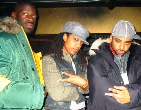 picture of Muzion